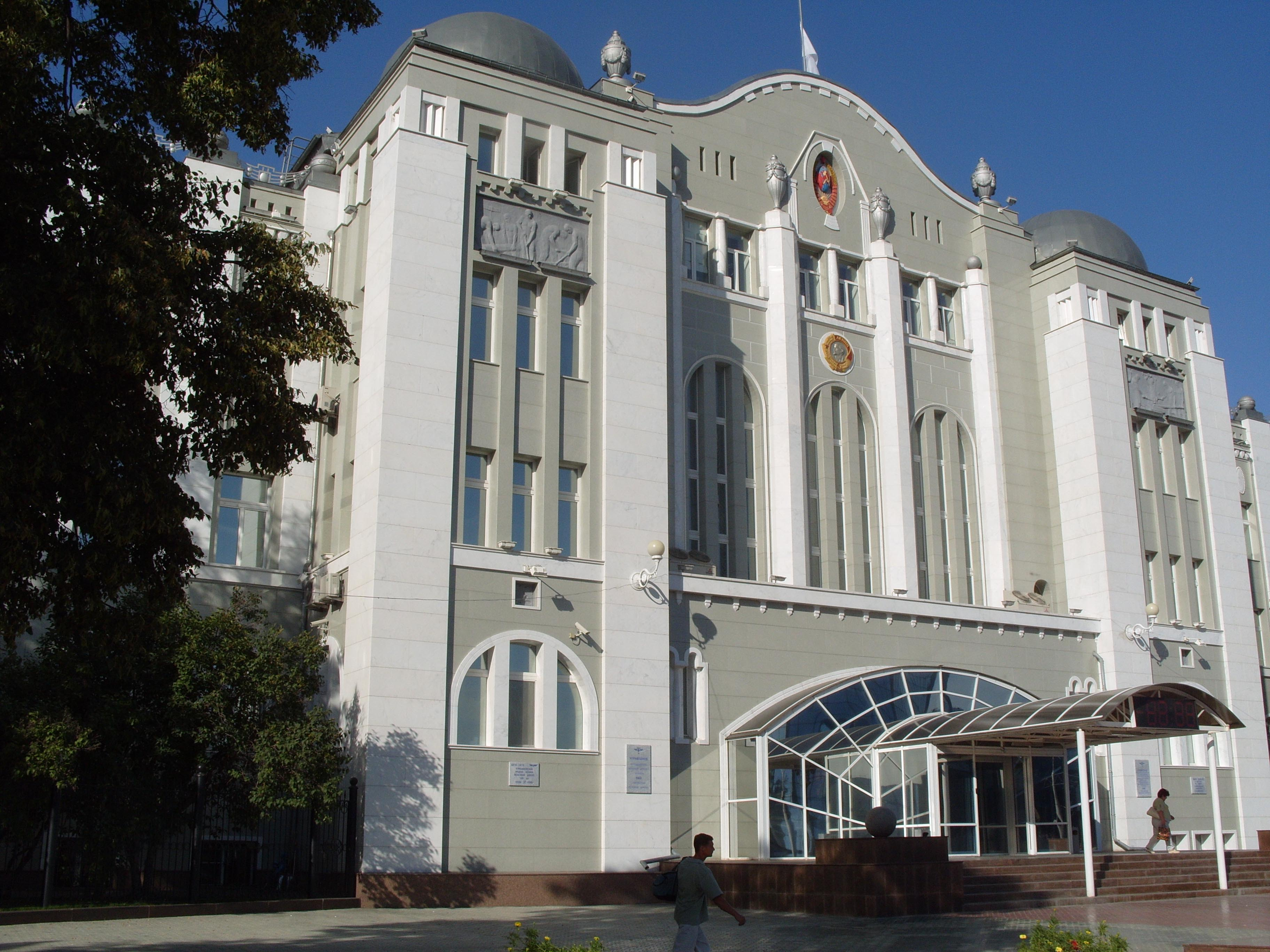 Train station administration in Samara